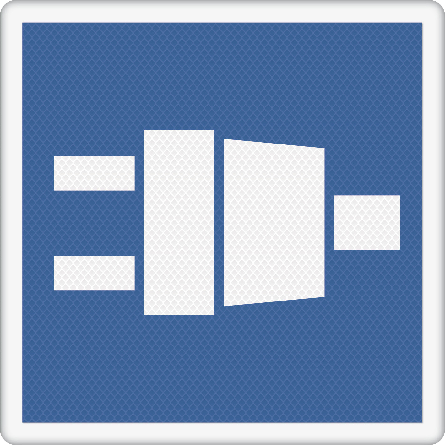 water transport sign E.25 indicating electricity for ships as menmioned in BPR